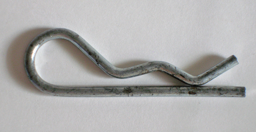 A picture of a spring-type cotter pin, for the article "Cotter Pin"